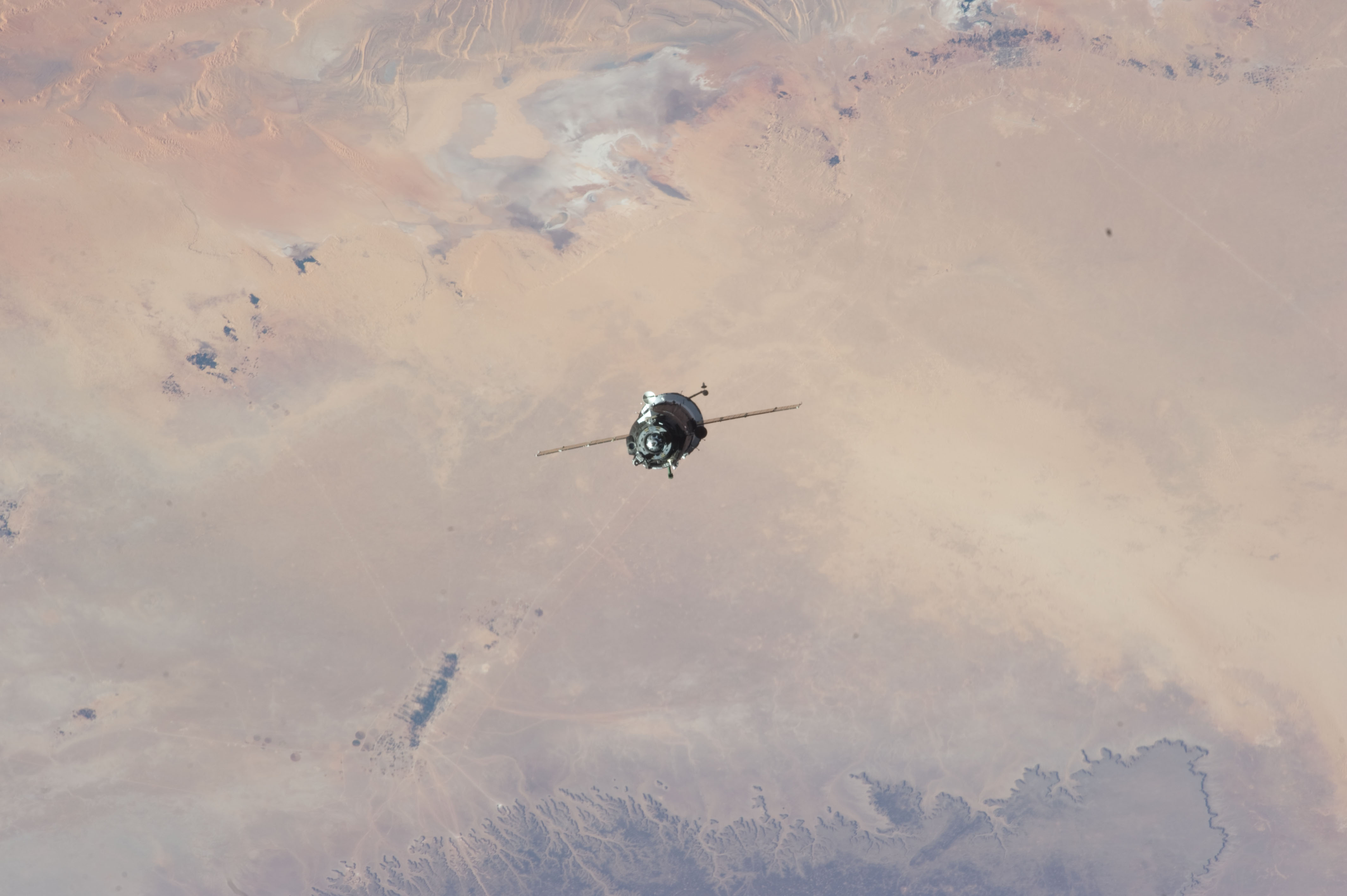 As the International Space Station and Soyuz TMA-07M spacecraft were making their relative approaches on Dec. 21, one of the Expedition 34 crew members on the orbital outpost captured this photo of the Soyuz backdropped by the Sahara Desert. Inside the arriving spacecraft were astronaut Chris Hadfield of the Canadian Space Agency, cosmonaut Roman Romanenko of Russia's Federal Space Agency and NASA astronaut Tom Marshburn. The image center is at 31.7 degrees north latitude and 2.0 degrees east longitude, on the south side of the Atlas Mountains and on the northern margin of a huge dune field known as Grand Erg Occidental, located in north central Algeria.